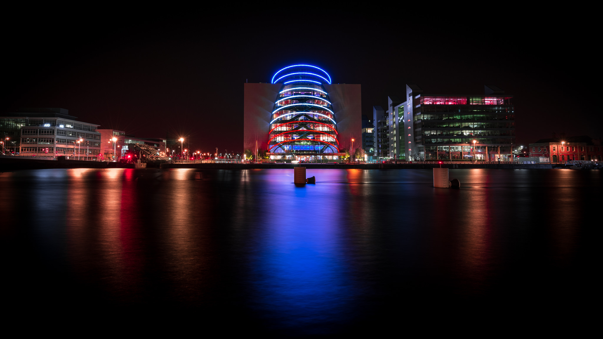 Night scene in Dublin, Ireand. A major seaside building is illuminated with colours of the French tricolour in solidarity with France after the November 2015 Paris attacks.